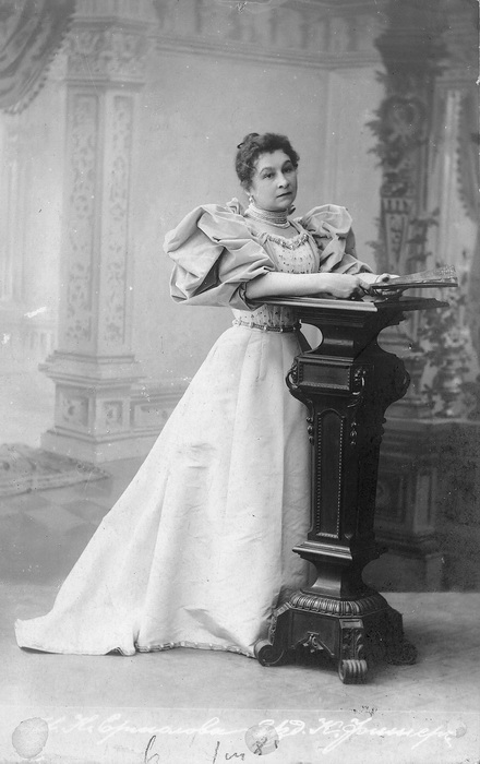 Russian actress Maria Yermolova as Evlampia in Ostrovsky's Nevolnitsy.